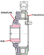 Construction